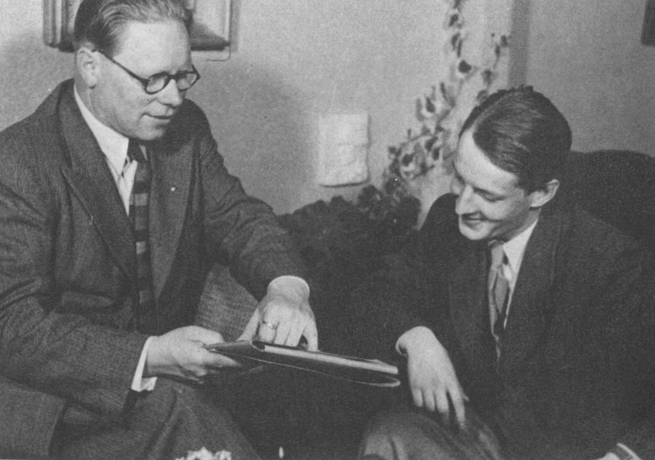 Photograph of the Finnish politicians Jussi Saukkonen and Juha Rihtniemi.